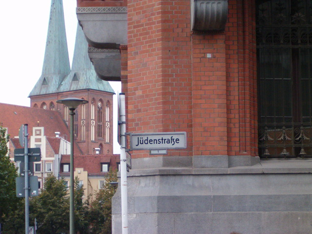 Berlin, streets sign “Jüdenstraße” in front of the Rotes Rathaus with the Nikolaikirche in background.